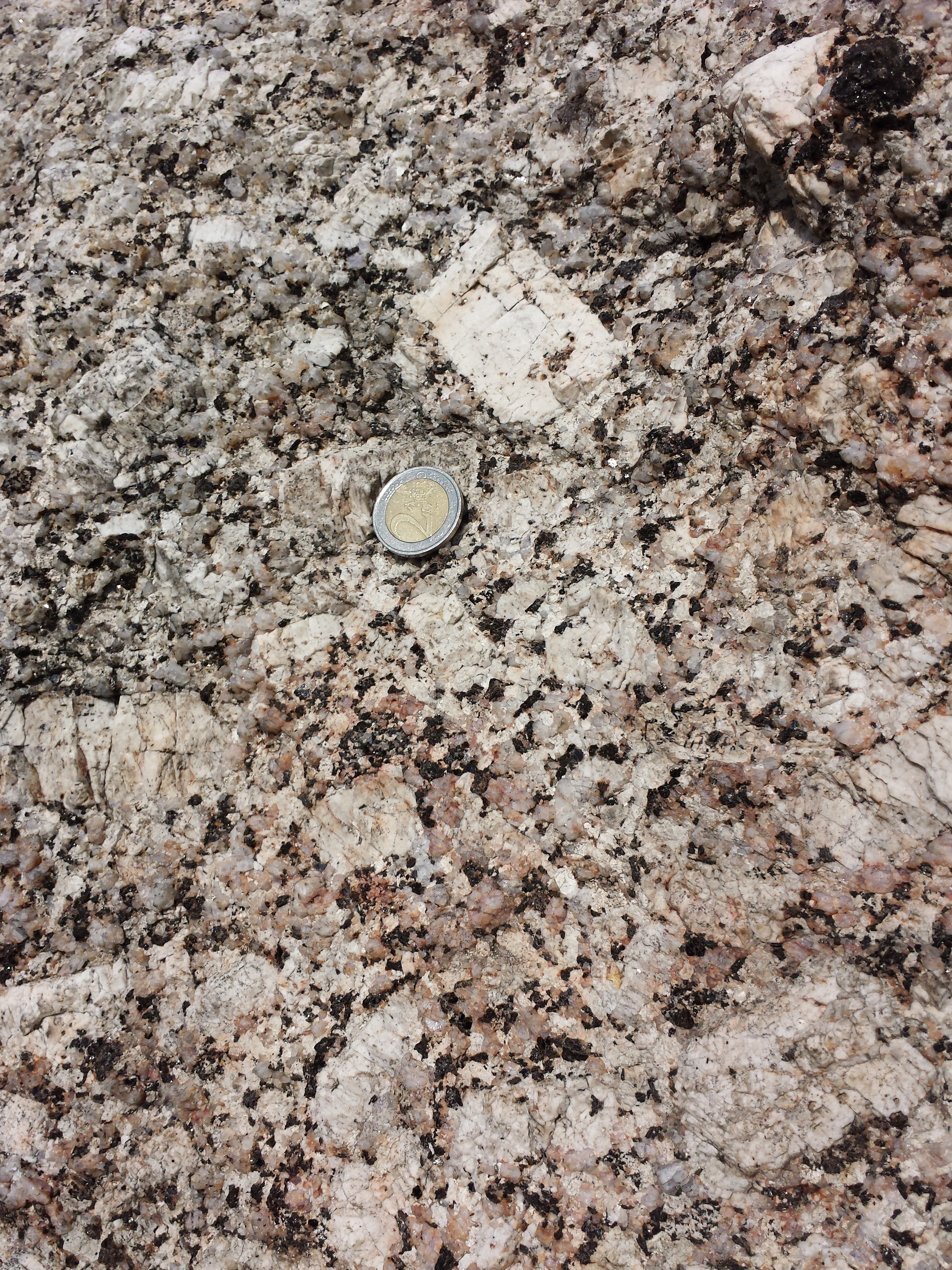 Weinsberg granite Altmelon, distict Zwettl, Lower Austria